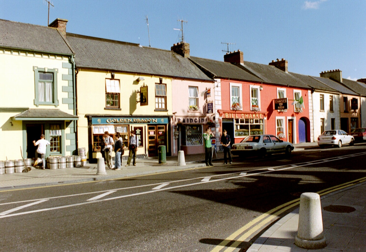 Brightly coloured houses and shops line Adare's main street. Picture taken by Matteo Corti in August 2002.